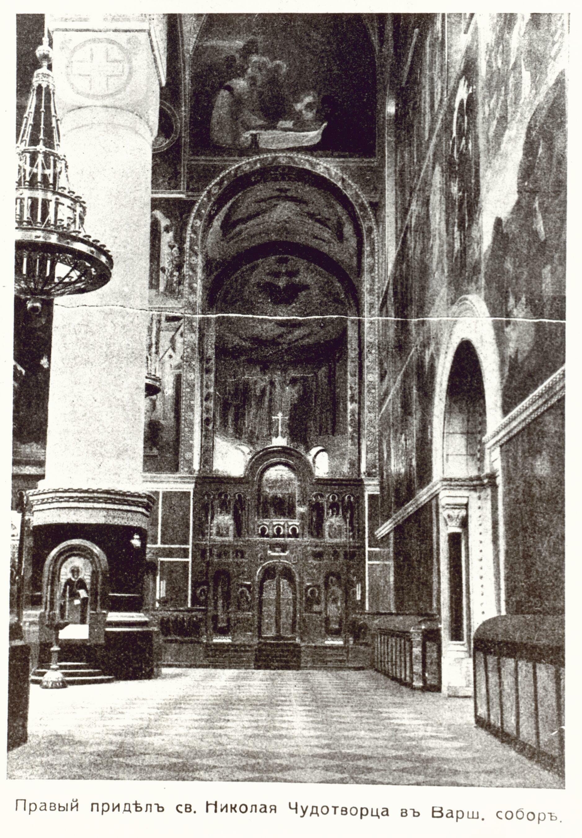 Warsaw (Poland), Alexander Nevsky Cathedral